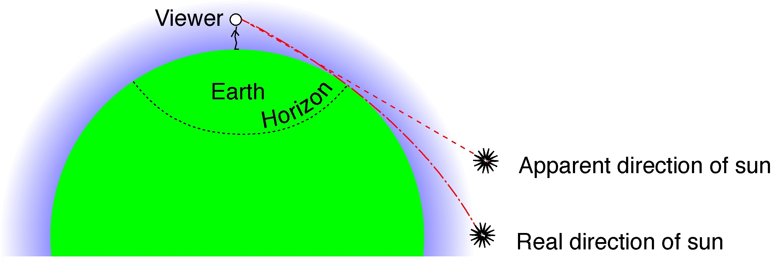 How the light from the setting sun bends through the atmosphere to make it visible even when, geometrically, it is below the horizon. The actual path of the sun's light is show as a red, dotted-and-dashed line. The apparent position is shown by the angle of the rays that enter the viewer's eye, shown as a red, dashed line.